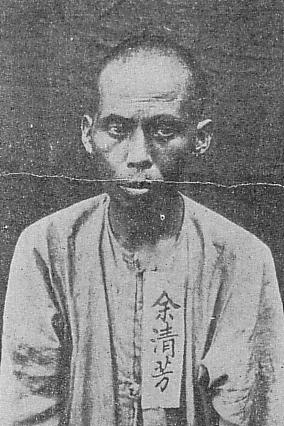 Yu Ching-fang